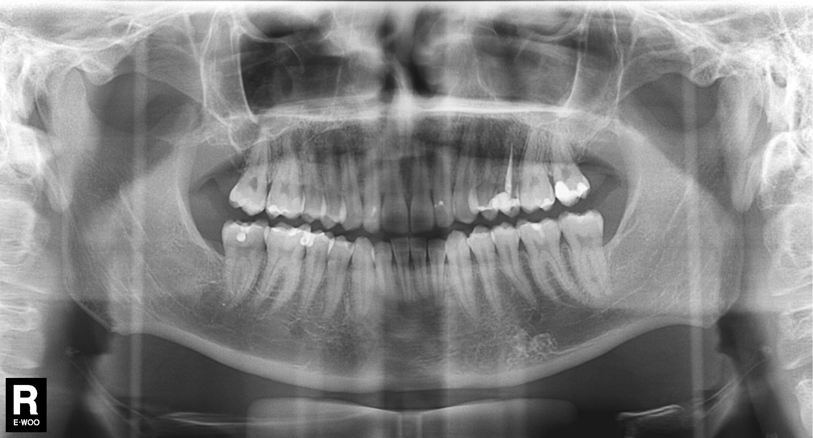 An Orthopantomogram of an 24-year old patient.